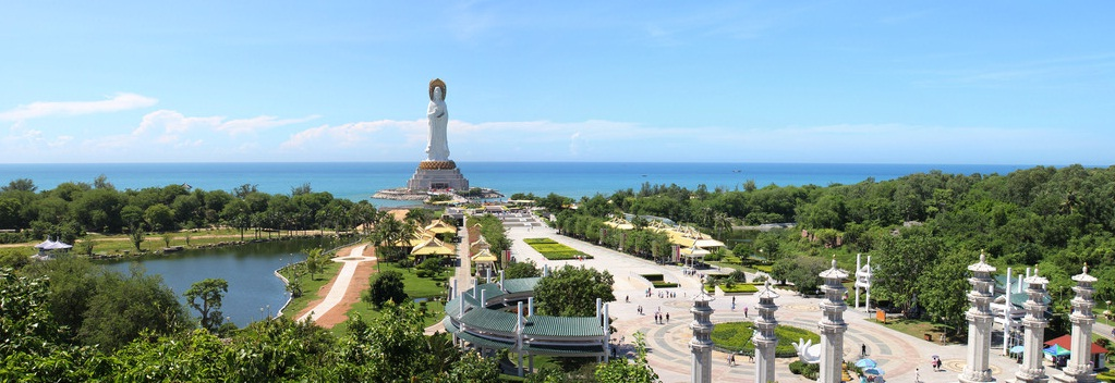 Nanshan Temple — Buddhist temple, in Sanya on Hainen island, Hainan Province, SE China.